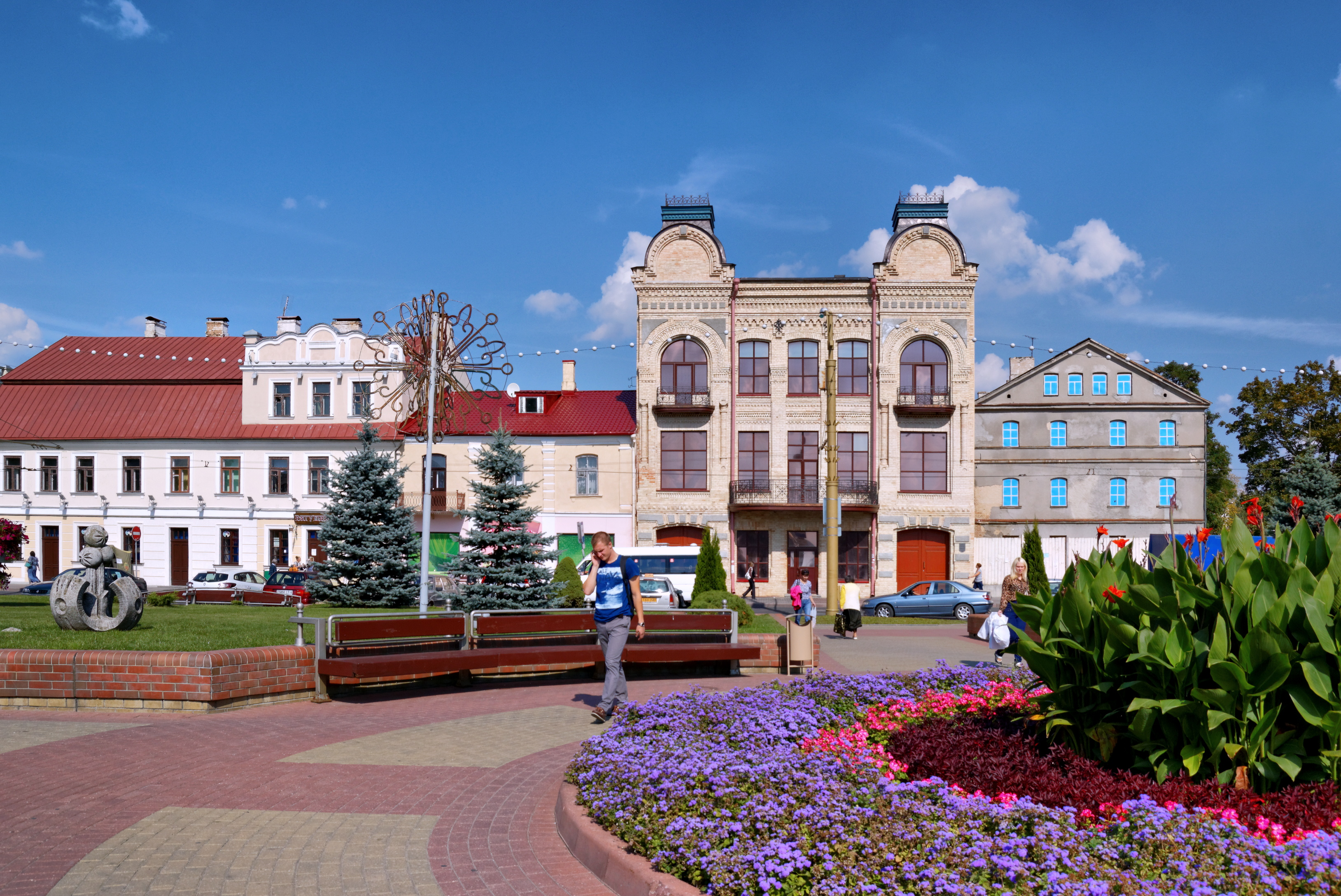 Grodno